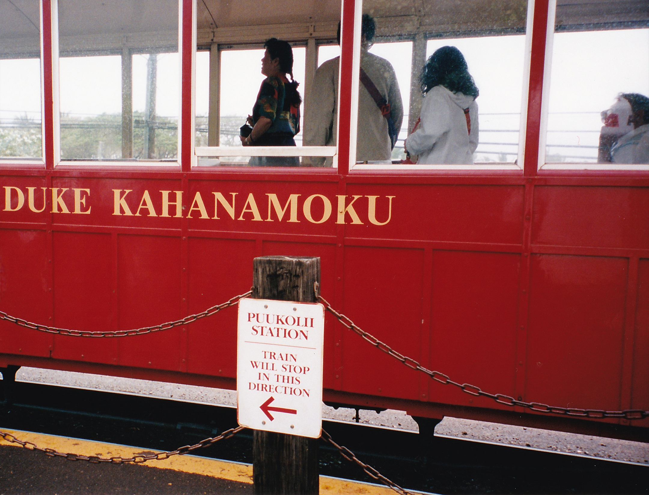 Maui Sugar Cane Train (DUKE KAHANAMOKU) 4/26/1997